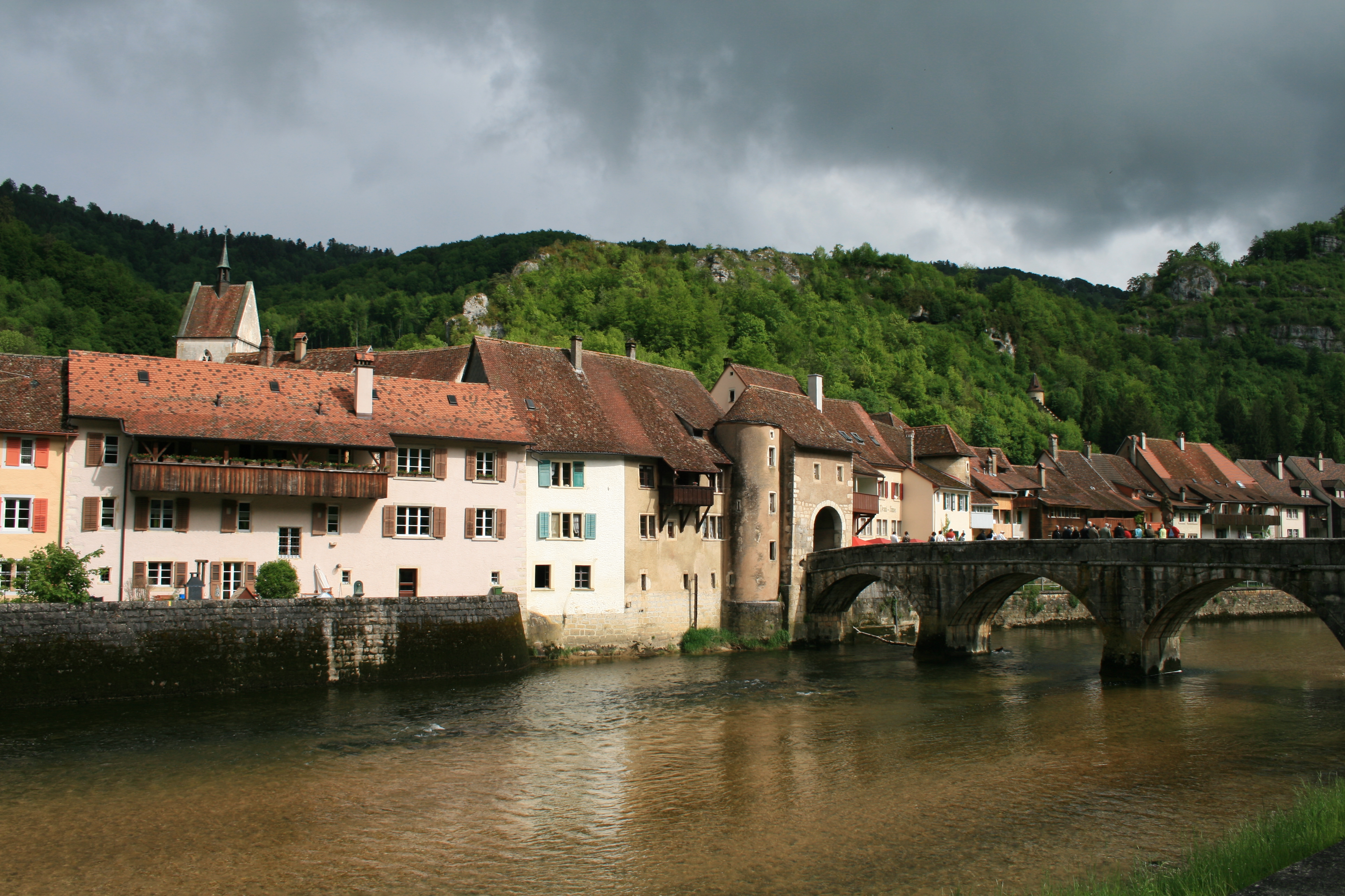 Saint-Ursanne, Switzerland